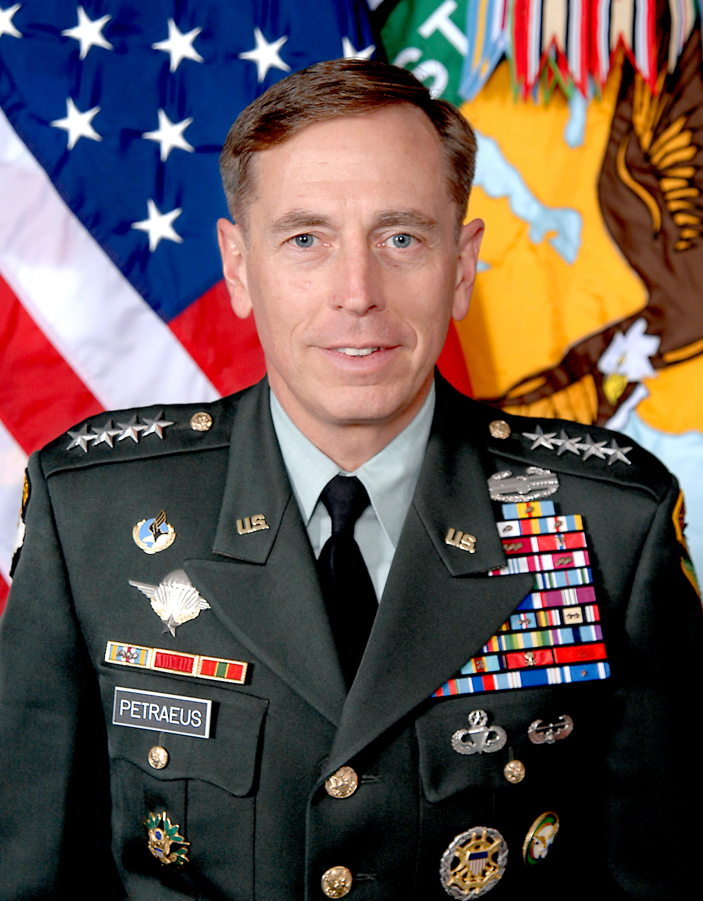 Official photograph of General David H. Petraeus, commander, U. S. Central Command